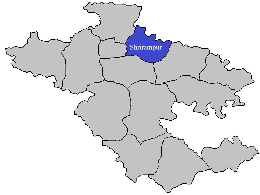 Shrirampur Tehsil in Ahmednagar District